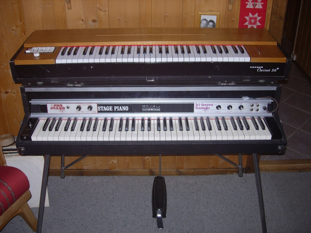 Rhodes with Dyno Modifications ; Clavinet